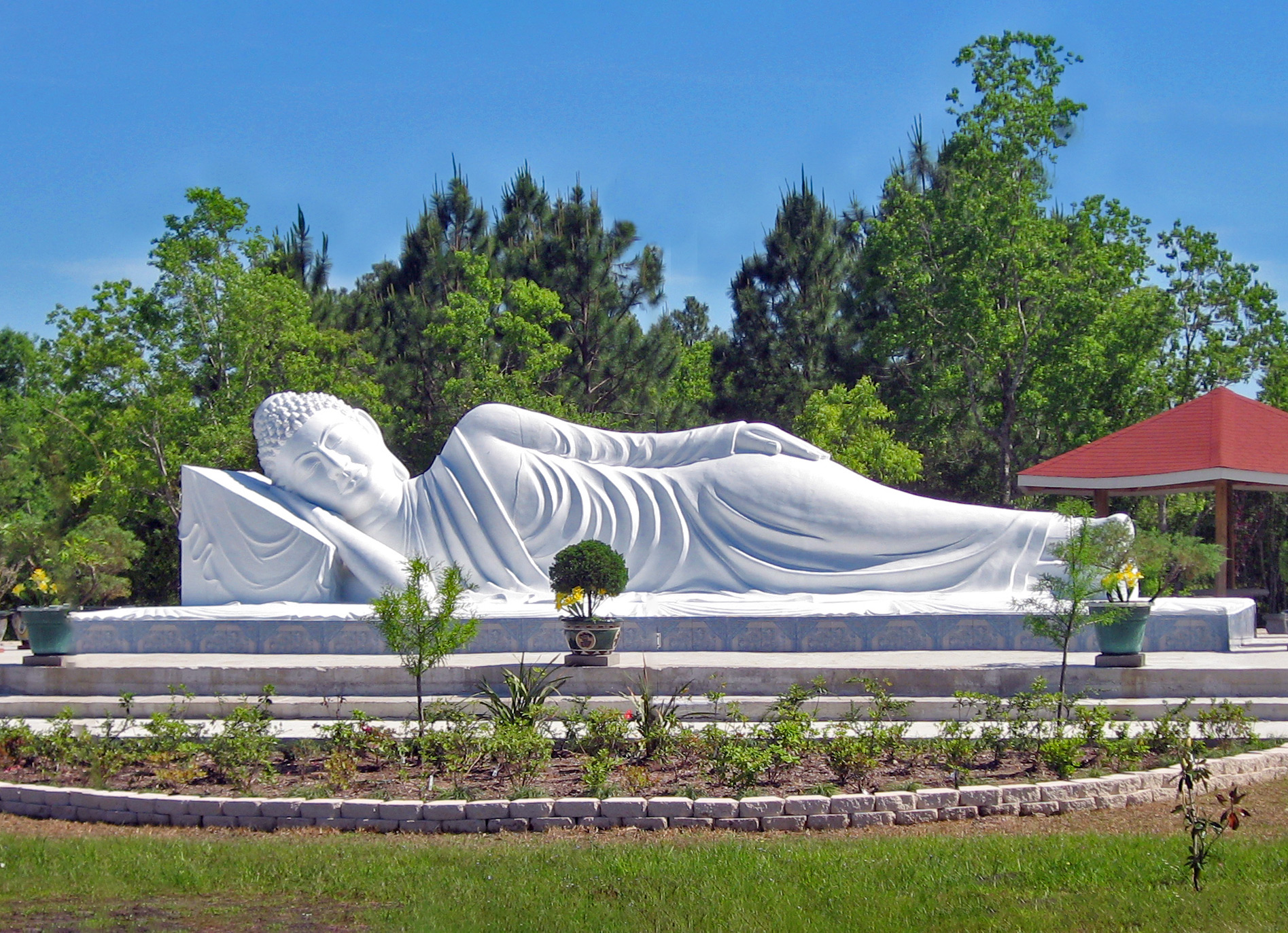 This reclining Buddha is in the garden surrounding Linh Son Buddhist Temple in Santa Fe, Texas near Dickenson